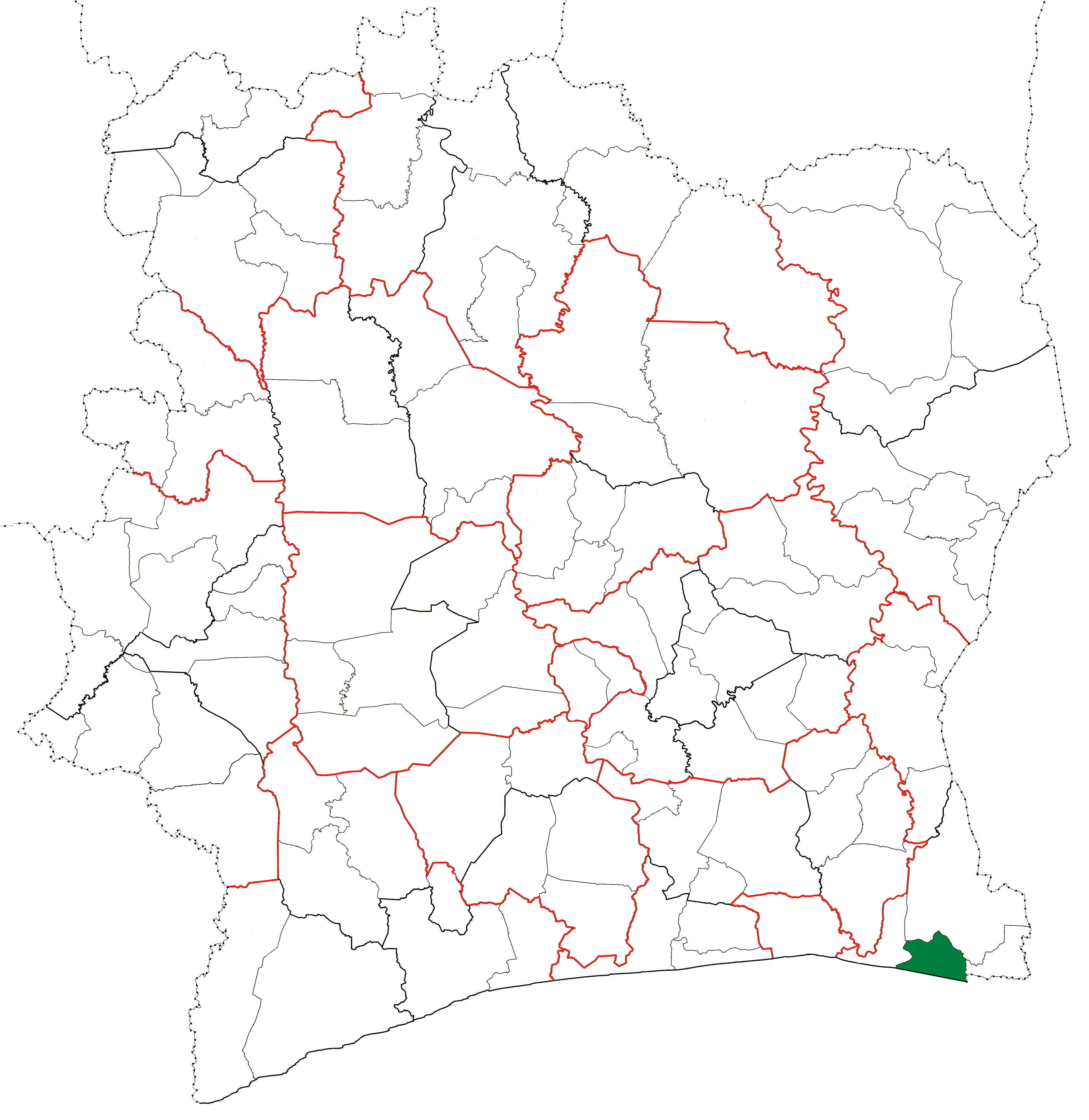 Locator map for Adiaké Department in Côte d'Ivoire.